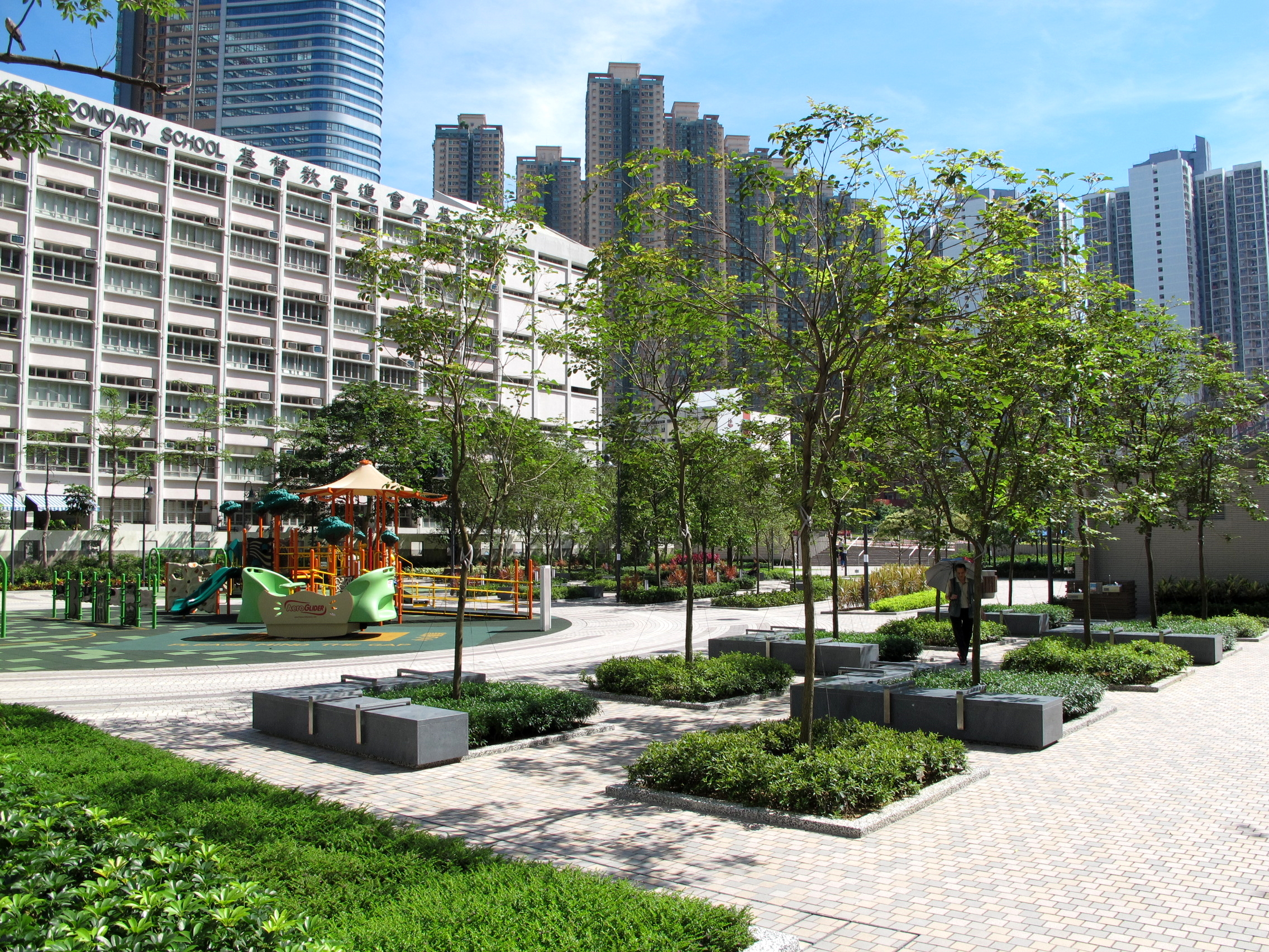 Tong Ming Street Park Playground 唐明街公園